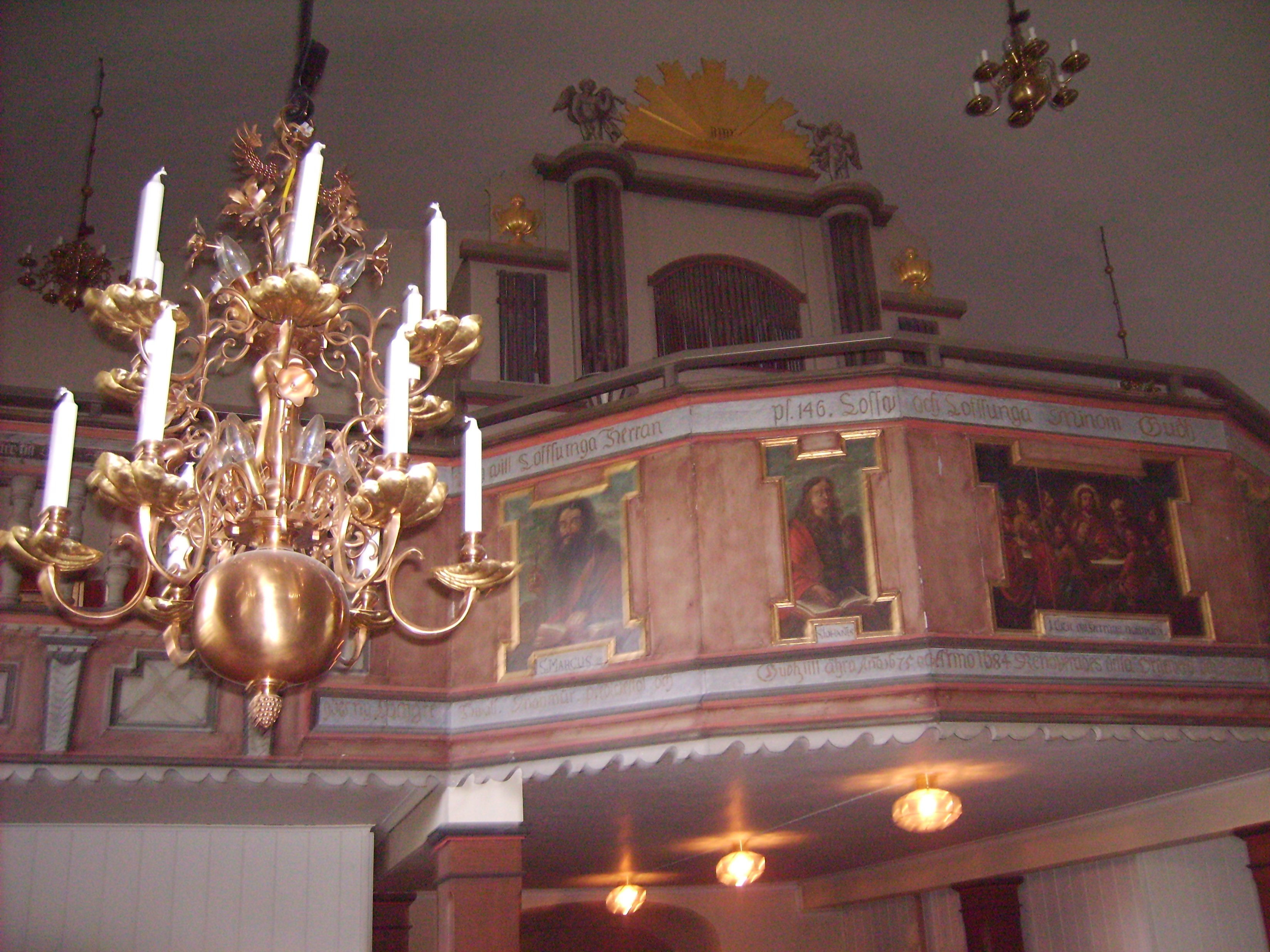 Styrstad church, outside Norrköping. Diocese of Linköping.